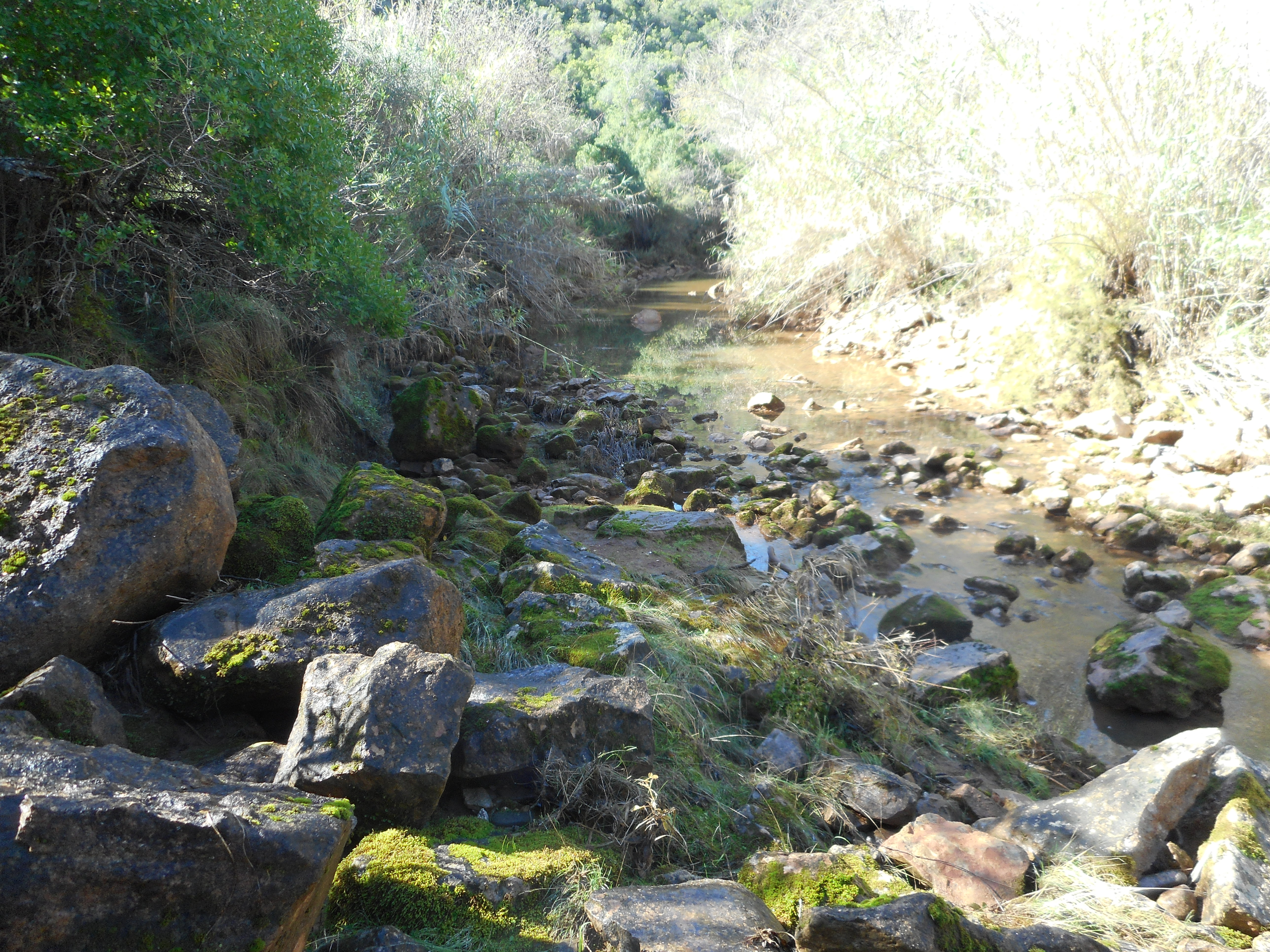 Looking upstream along a rock section of the Quarteira River from Section 14 of the footpath PR.1 where the path loops around Paderne castle, Paderne, Algarve, Portugal.